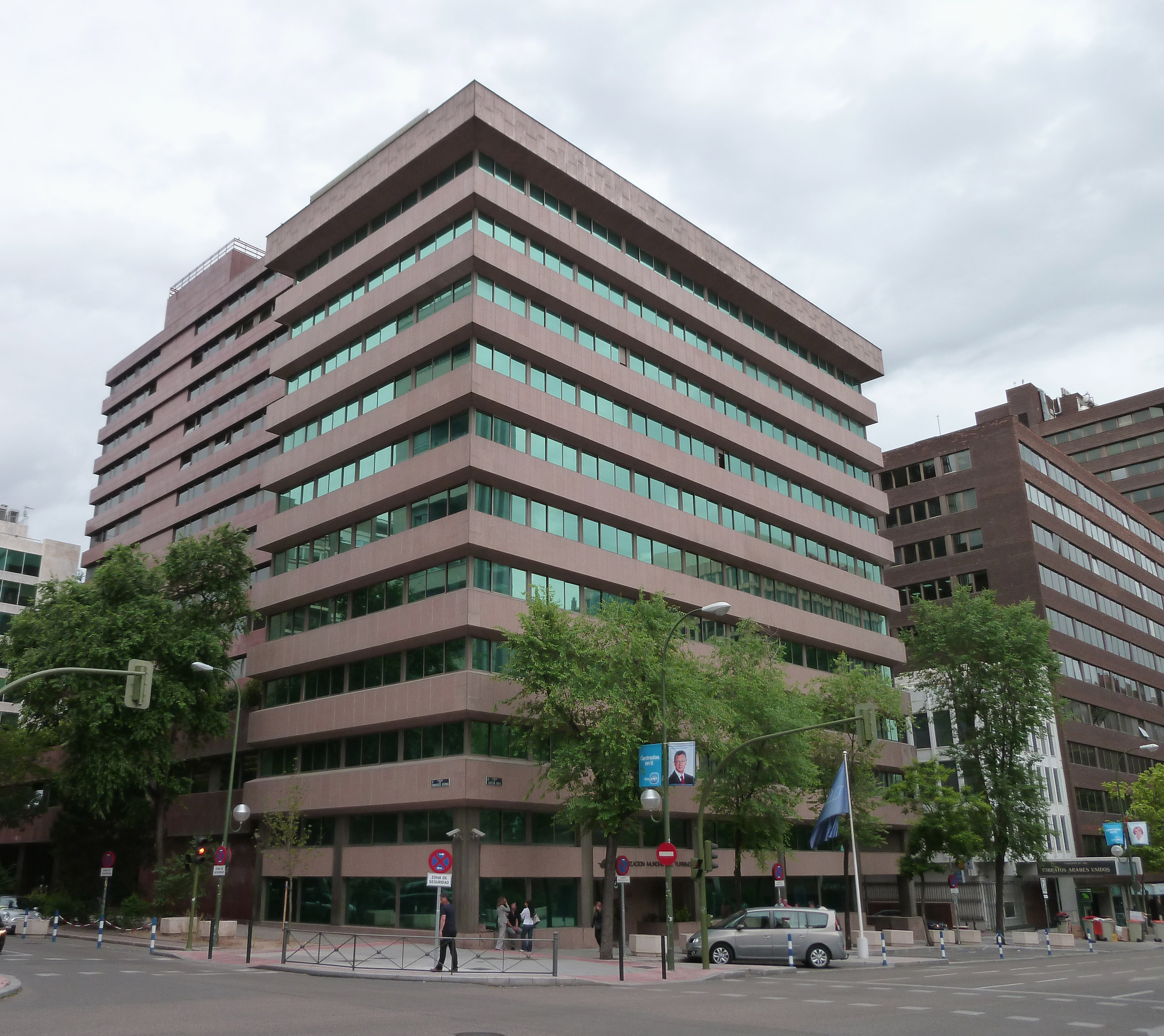 View of U.N. World Tourism Organization (UNWTO) headquarters, in Madrid (Spain).